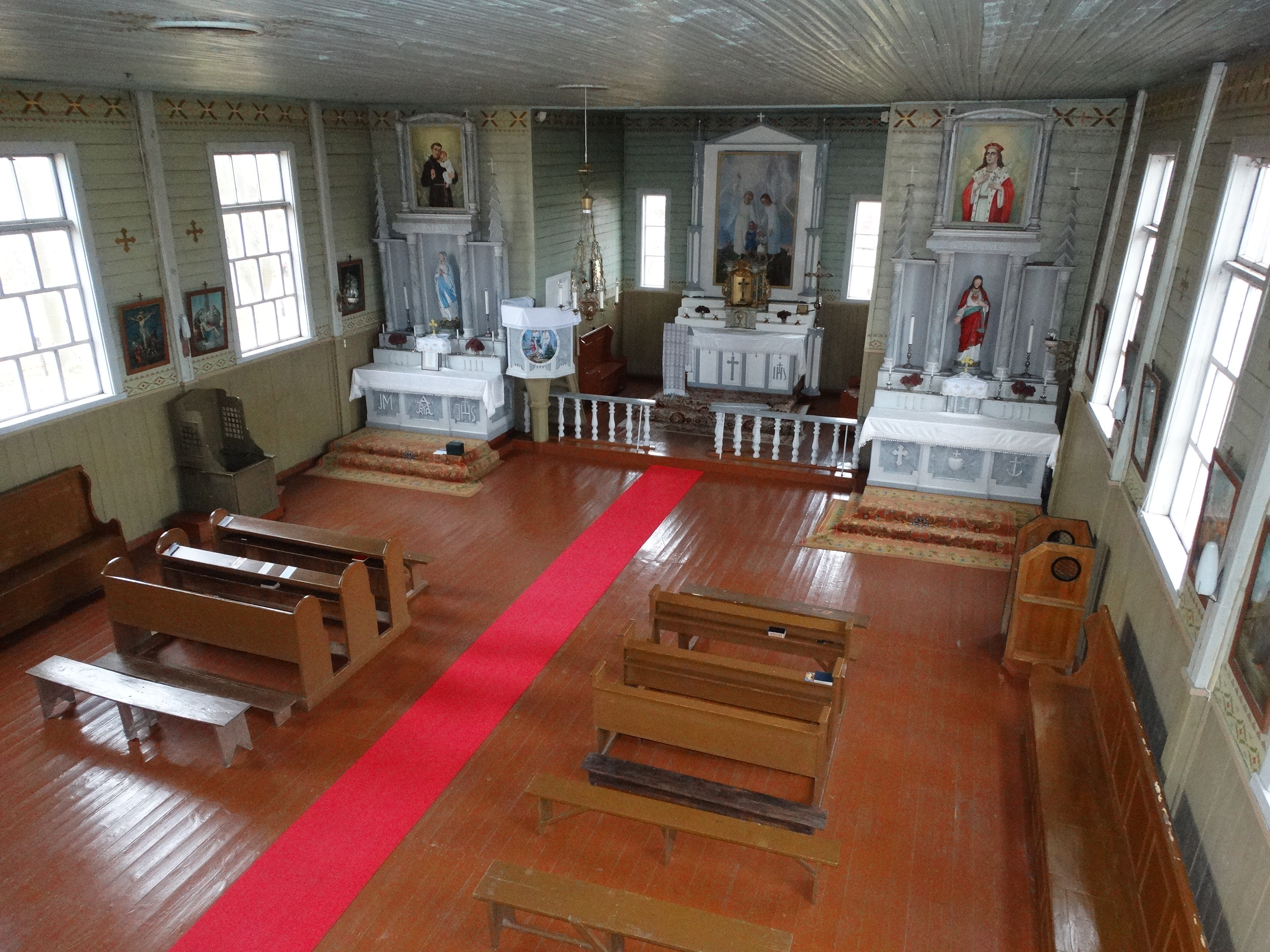 Roman Catholic Church in Krivonys, Kaišiadorys District, Lithuania